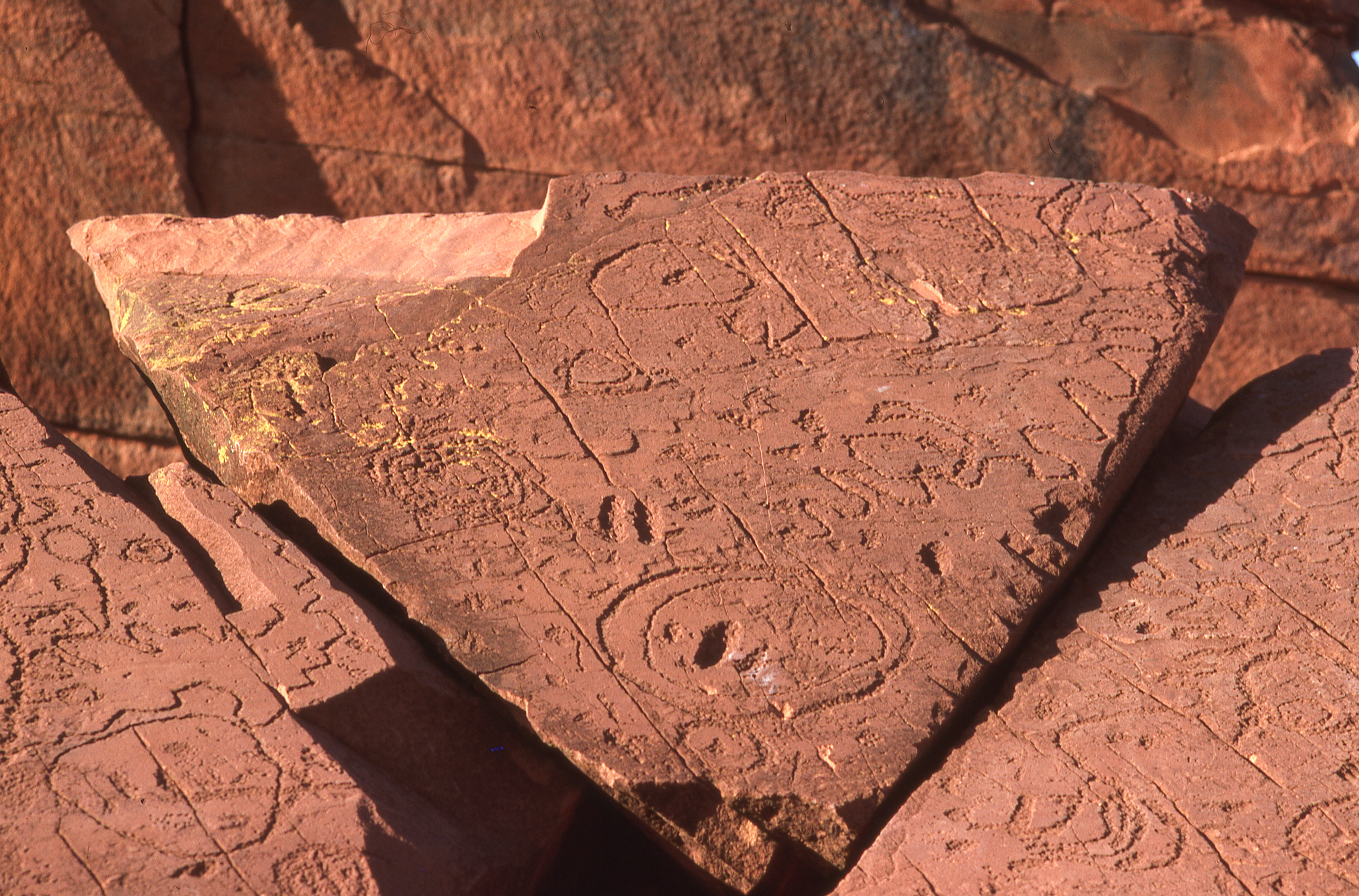 Rock carvings, Ewaninga Conservation Reserve, NT, Australia (Kodachrome slide scanned at 6400, originally taken in 1987)